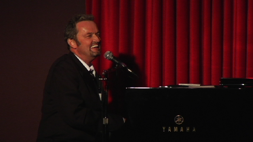 Phil Swann Performs at His Album Release Party in August 2011